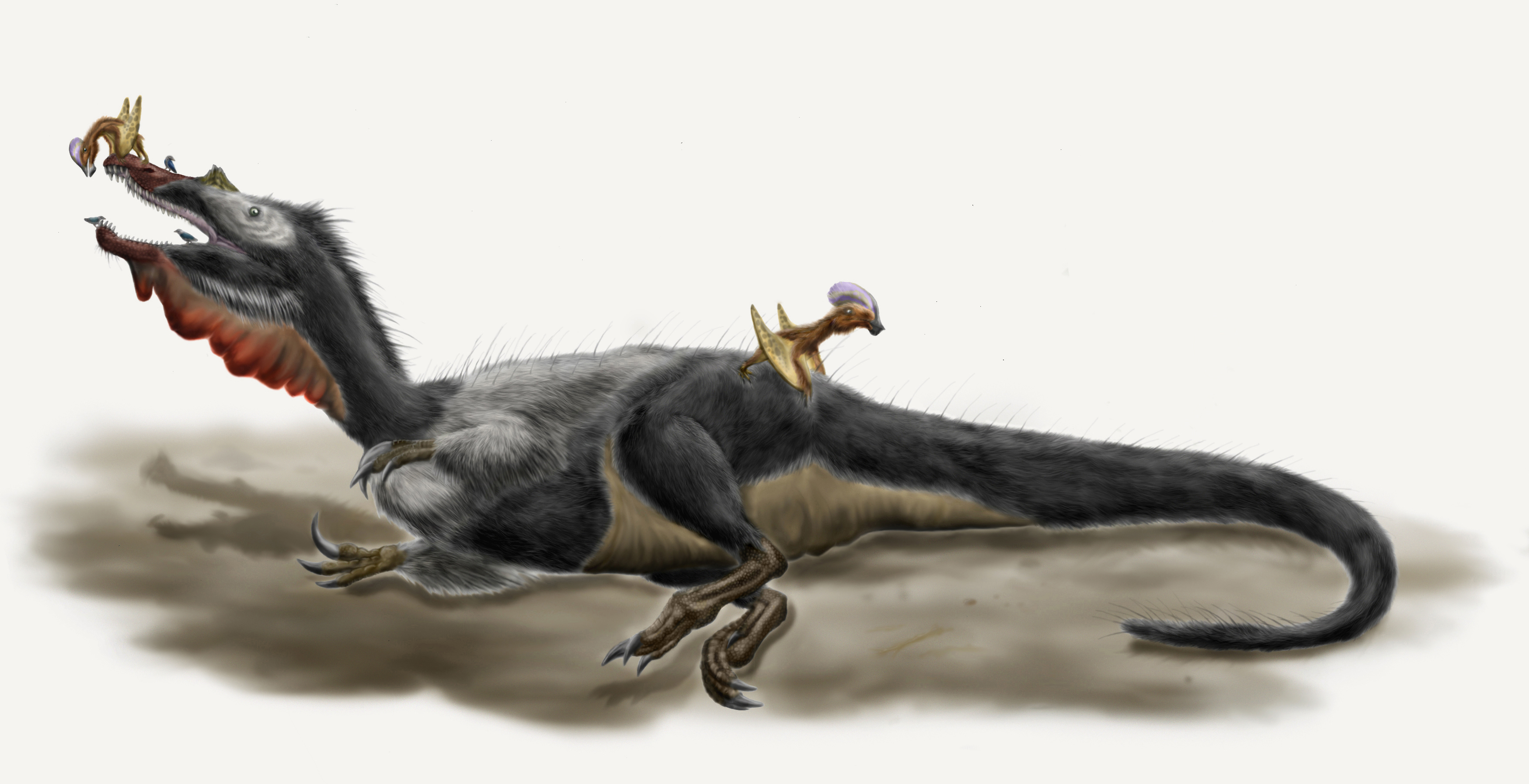 The spinosaurid Baryonyx walkeri sunbathes while the pterosaur Europejara and bird Iberomesornis groom it for parasites and bits of meat.